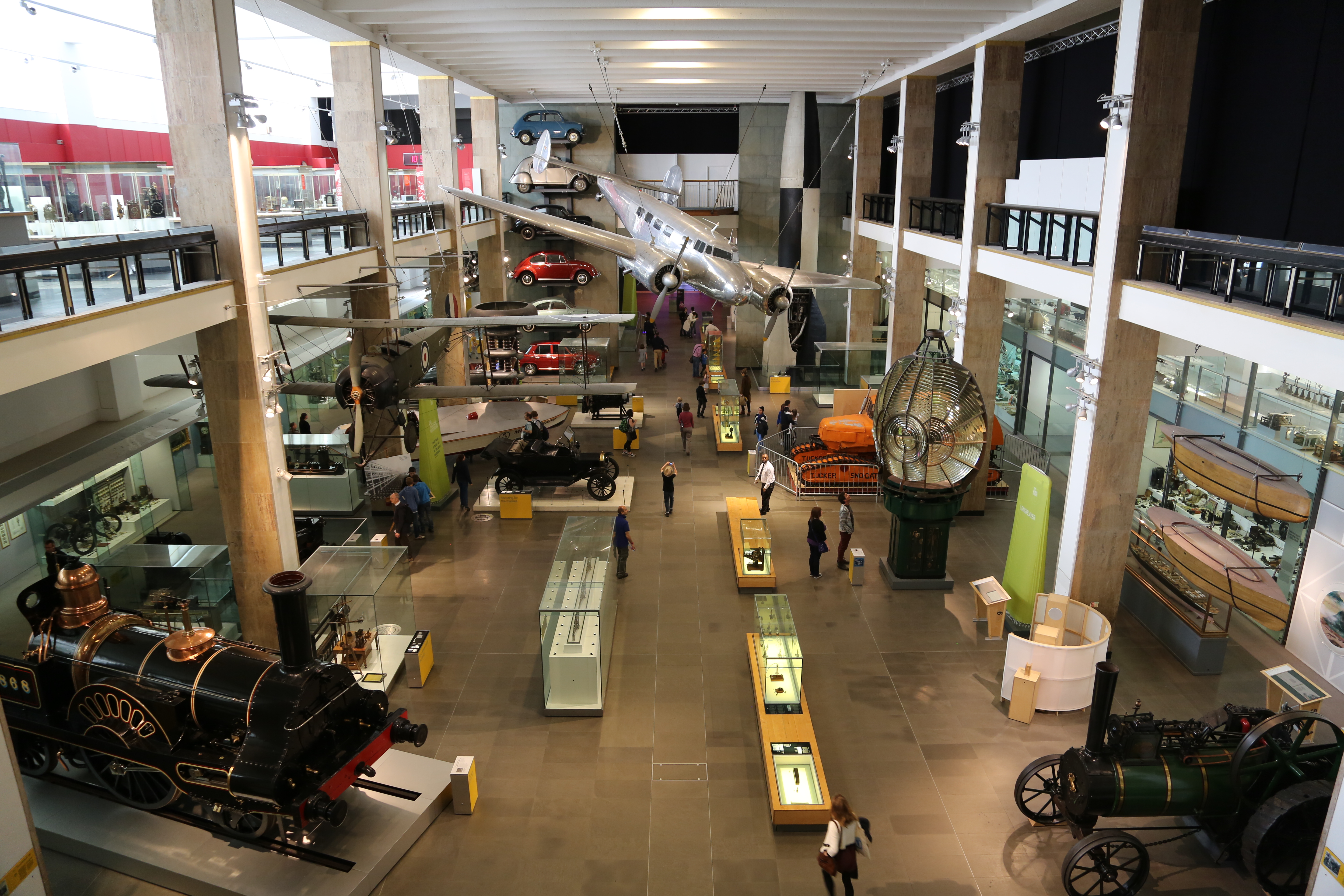 Photo of the Modern World gallery in the science museum, london